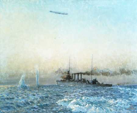 A painting of Australian light cruiser HMAS Sydney and German zeppelin L43's fight in the North Sea on 4 May 1917